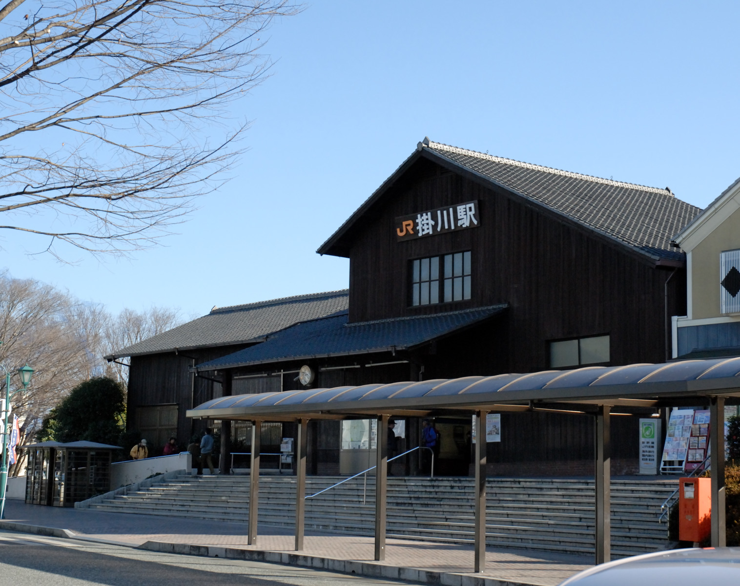 Kakegawa Station of Central Japan Railway Company, Shizuoka Japan. (North view)